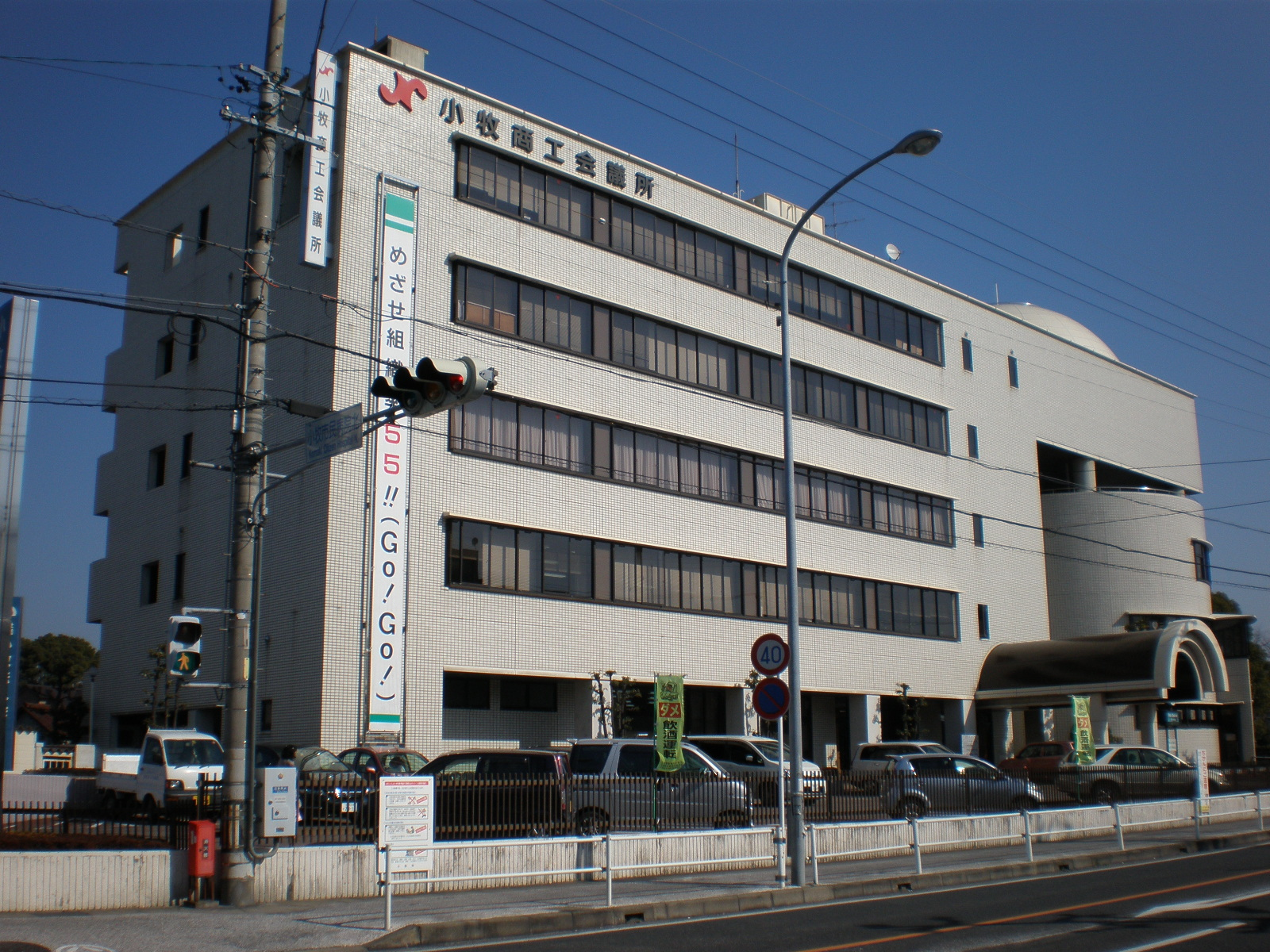 "Komaki Chamber of Commerce and Industries" & "Komaki Central Public Hall"